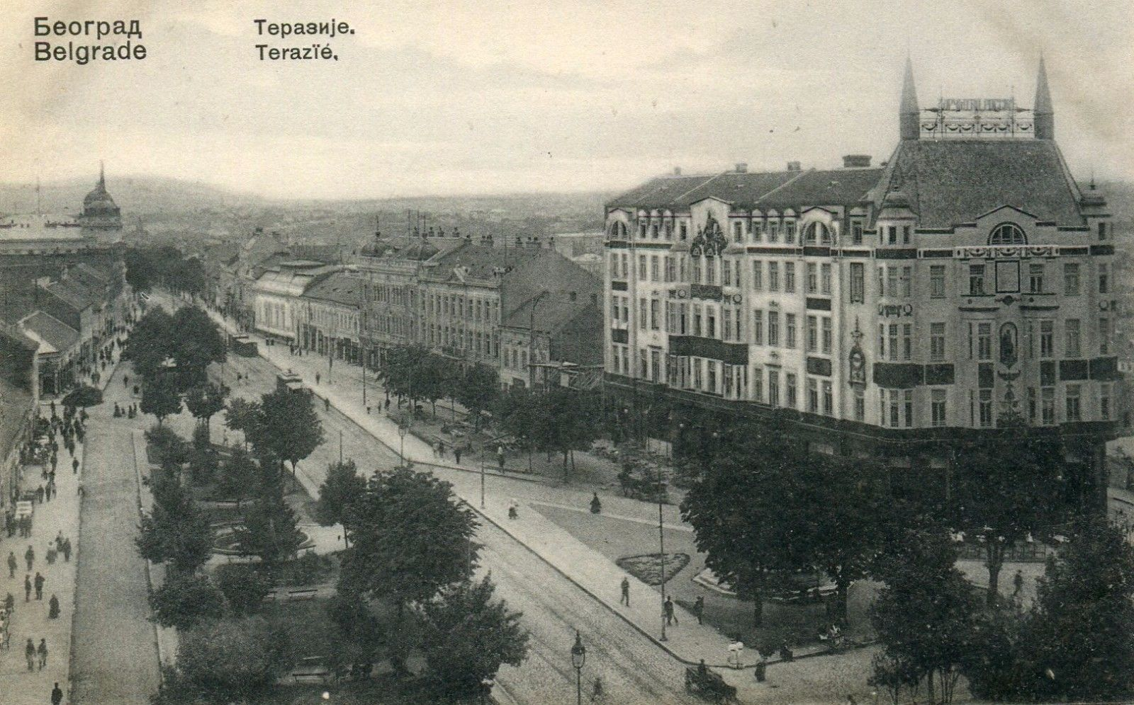 And old photo of Belgrade, Terazije